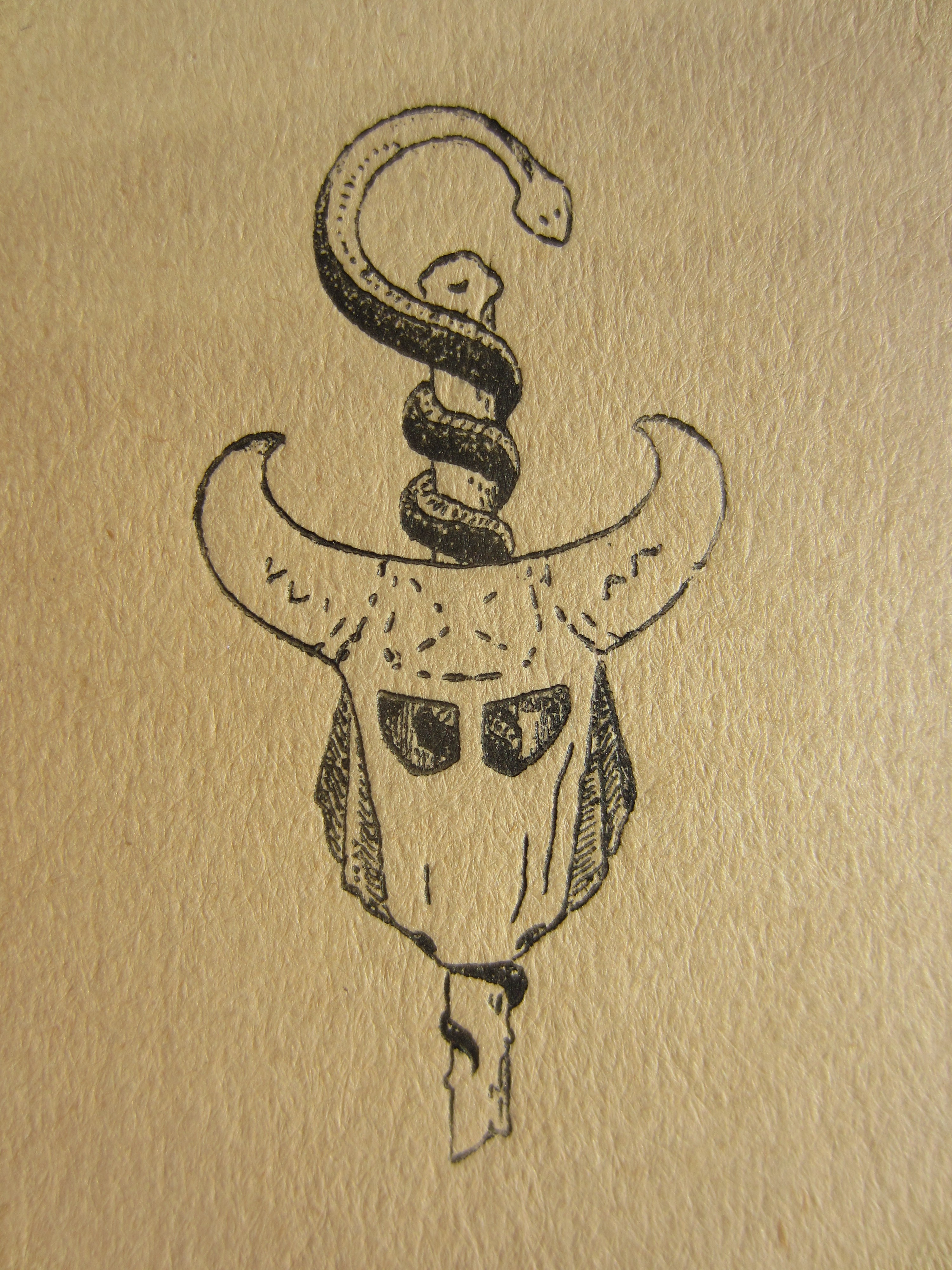 The author Hjalmar Söderberg designed this vignette at the front of his novel "Jahves eld" in 1918.